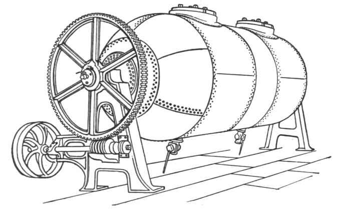 Boiler for cooking rags to produce paper